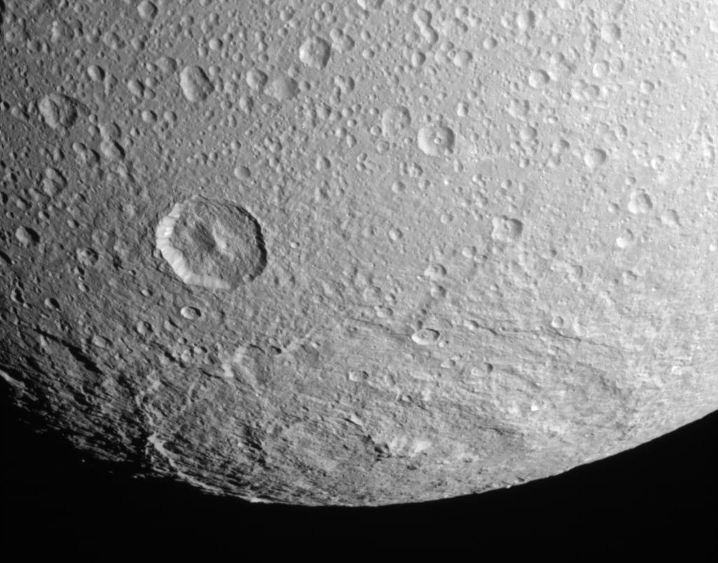 This raw, unprocessed image of Dione was taken on December 12, 2011 and received on Earth December 12, 2011. The camera was pointing toward Dione at approximately 77682 kilometers away, and the image was taken using the CL1 and CL2 filters. The image has not been validated or calibrated. A validated/calibrated image will be archived with the Planetary Data System in 2012. The Cassini Solstice Mission is a joint United States and European endeavor. The Jet Propulsion Laboratory, a division of the California Institute of Technology in Pasadena, manages the mission for NASA's Science Mission Directorate, Washington, D.C. The Cassini orbiter was designed, developed and assembled at JPL. The imaging team consists of scientists from the US, England, France, and Germany. The imaging operations center and team lead (Dr. C. Porco) are based at the Space Science Institute in Boulder, Colo. For more information about the Cassini Solstice Mission visit and The original NASA image has been modified by cropping, deinterlacing on the right margin, and rotating 180 degrees to put south at the bottom.